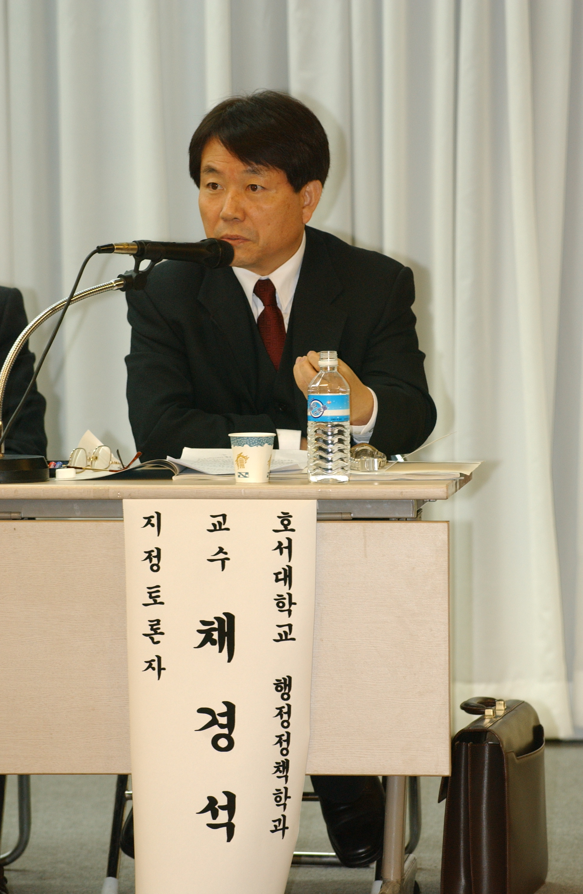 채경석, 2003년 11월 서울특별시 중구 서울특별시청 도시재난 대비 및 대응능력 강화를 위한 심포지움 '서울시 재난·재해 대비측면의 과제 및 전략'